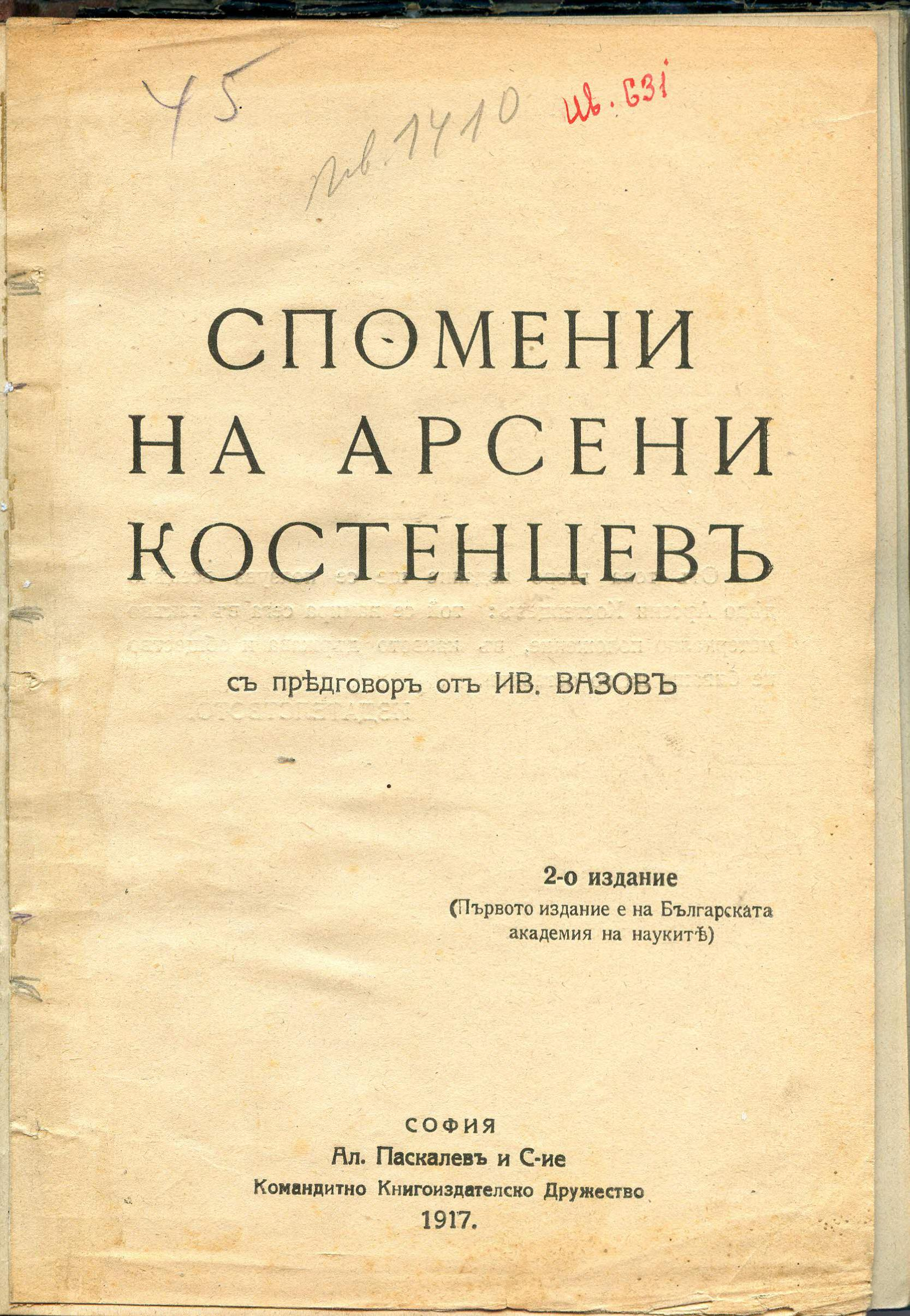 Arseni Kostentsev Spomeni